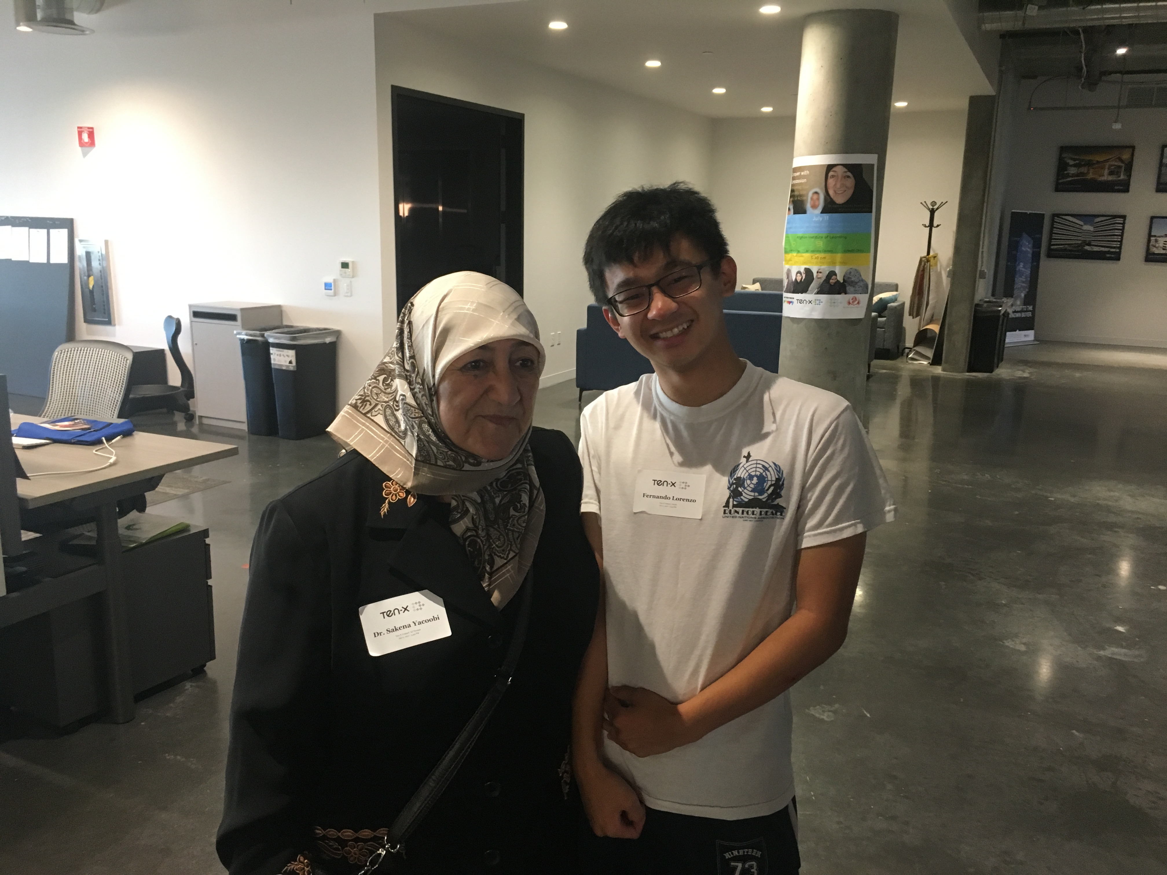 Fernando Lorenzo (of ???) met Dr. Sakeena Yacoobi, Nobel Peace Prize nominee. She's noted for helping millions of Afghan students, particularly women, continue their education despite the Afghan war and the Taliban's calls for shutting them down.